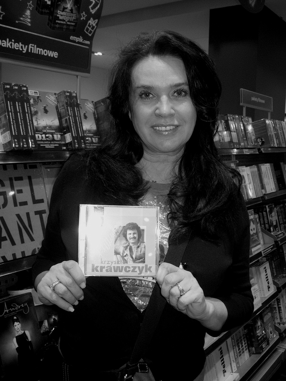 Ewa Krawczyk (Ewa Trylko) with album of his husband Krzysztof Krawczyk.